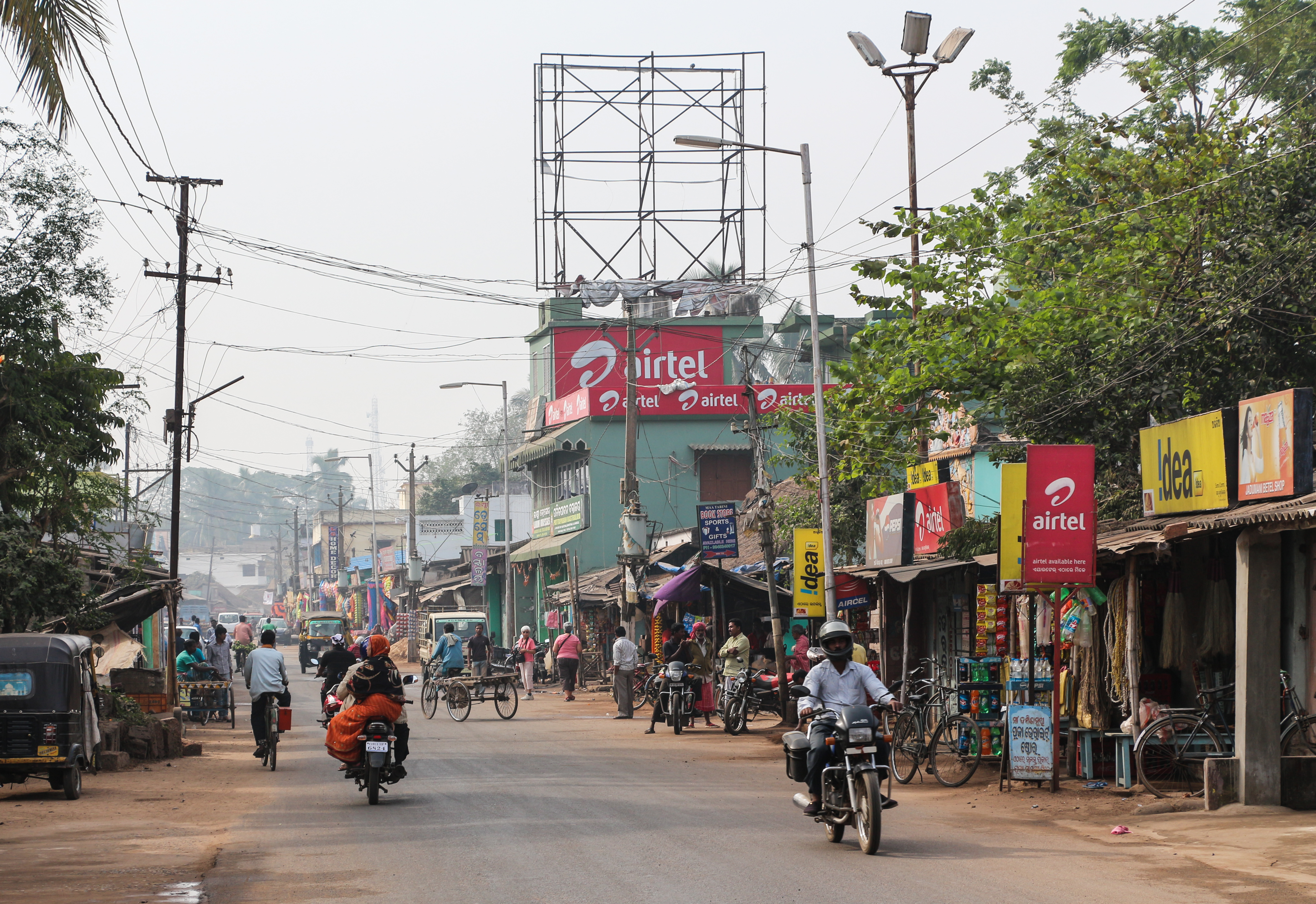 Khurda Road in Pipili, Odisha, India